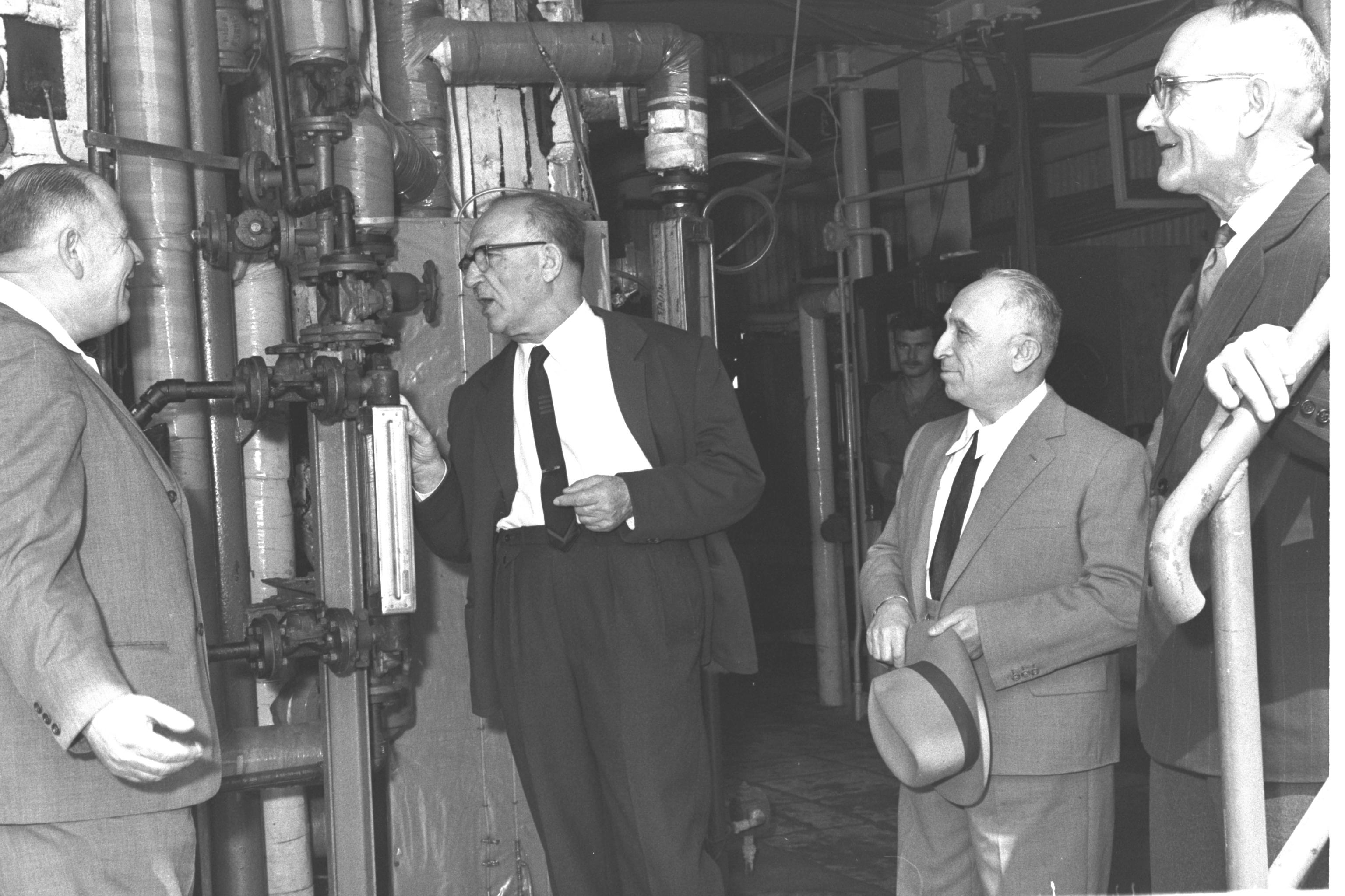 PRIME MINISTER LEVI ESHKOL INSPECTING THE INSTALLATION AT THE ZARCHIN PILOT PLANT IN TEL BARUCH WITH MIN. OF DEVELOPMENT YOSEF ALMOGI (FAR L) LOOKING ON.